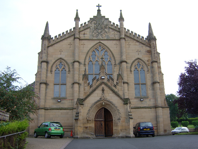 St Marys Catholic Church, Hexham